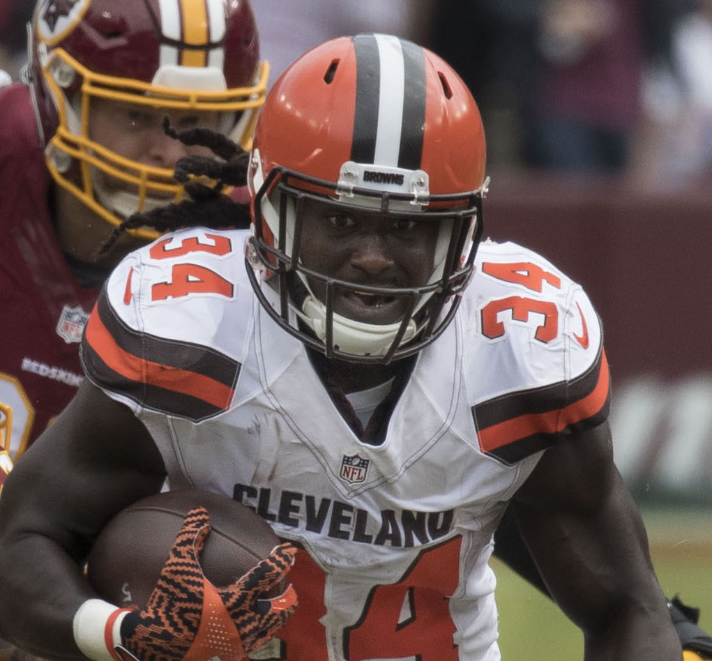 Cleveland Browns running back, Isaiah Crowell, playing against the Washington Redskins on October 2, 2016